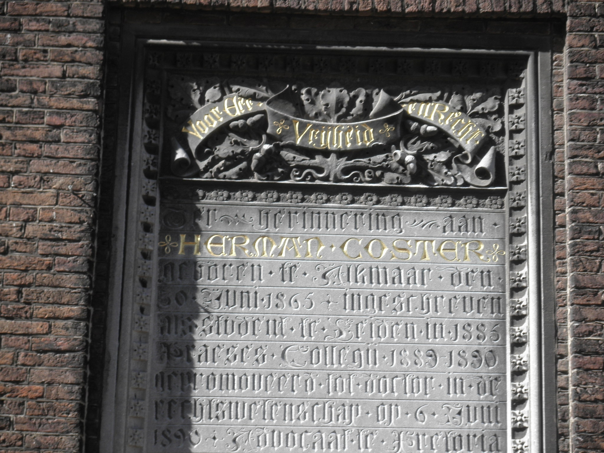 Plaque at Academiegebouw Leiden University, commemorating the death of Herman Coster at Elandslaagte (South Africa) 1899